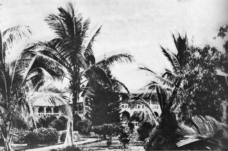 Catholic Jesuits' mission at Kisantu, Belgian Congo